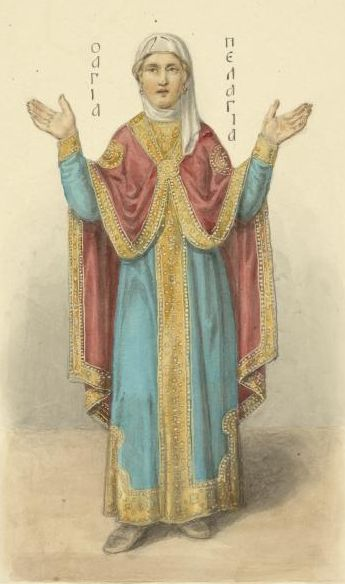 Pelagia of Tarsus